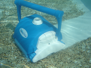 Remote control operated pool cleaner